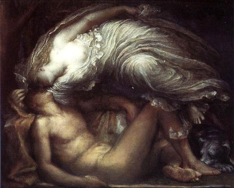 Endymion